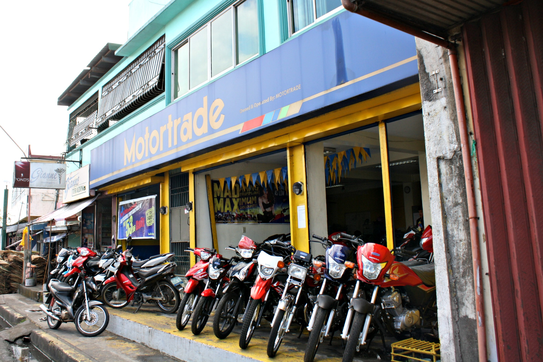 The leading multi-brand motorcycle dealer in the Philippines.